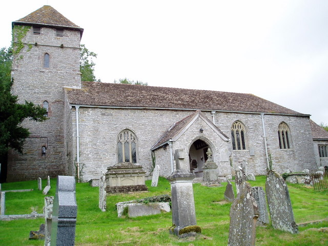 St Gwendolines Church. St Gwendolines Church, Llyswen, the church adopted St Gwendoline as their Patron Saint between the 9th century and the Norman invasion (she is a local Welsh Saint buried at Talgarth). The single bell in the tower is dated 1666, the church was rebuilt in 1862, the only remaining Norman part is the font.